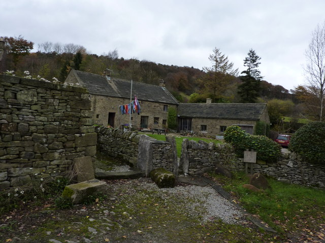 Walls, stile and hall, Great Hucklow Both limestone and gritstone used here for wall building